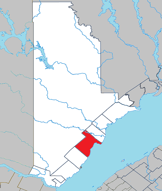 Location of Longue-Rive, Quebec within La Haute-Côte-Nord Regional County Municipality.